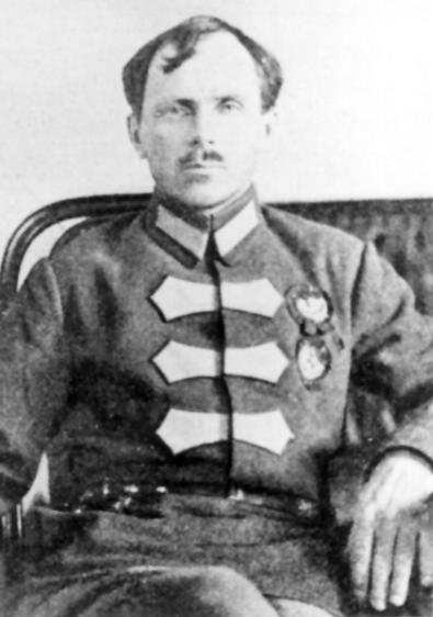 Mratschkowski